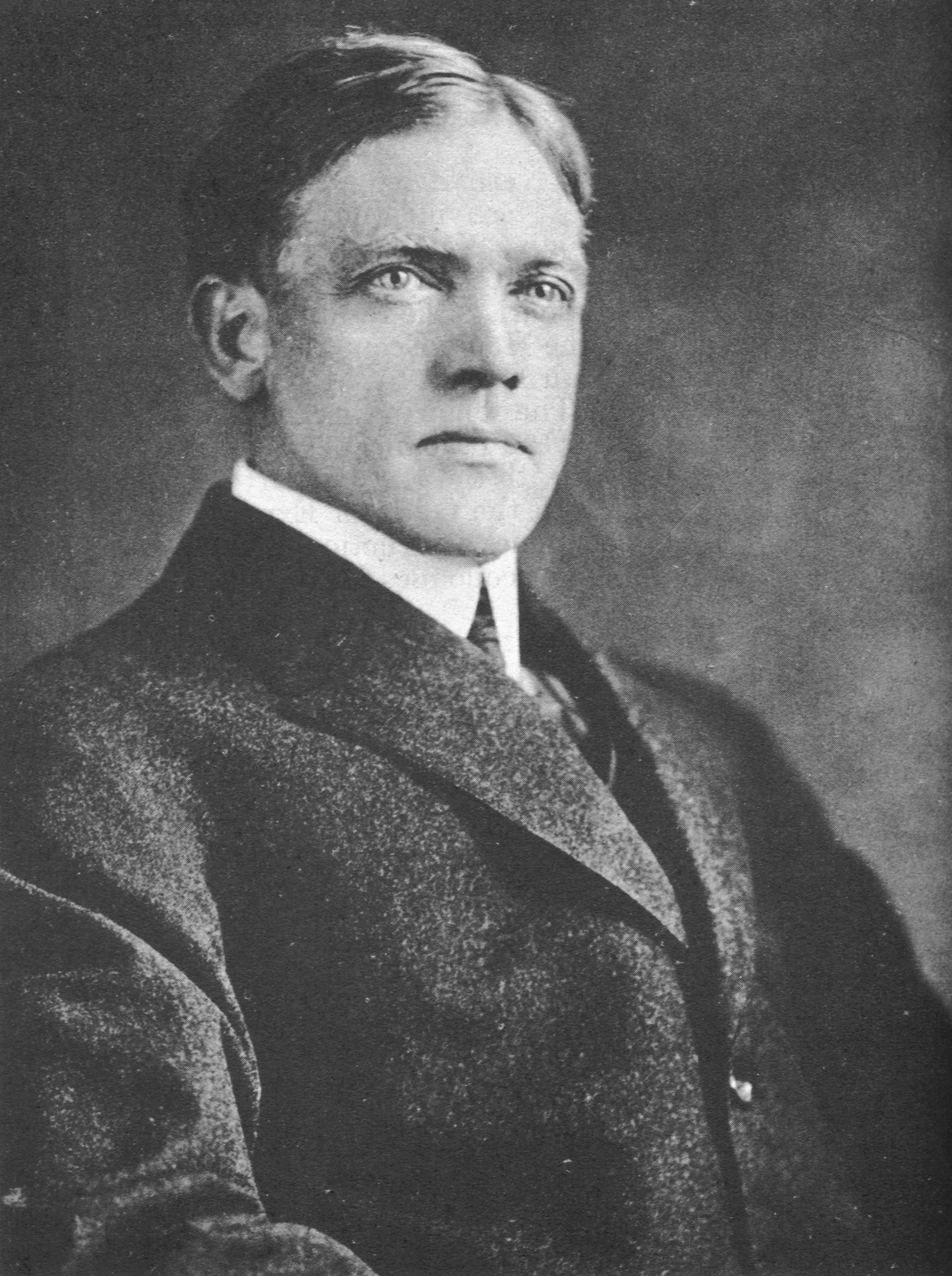 Charles L. McNary, a senator who represented the state of Oregon in the U.S. Congress from 1917 until 1944. Original caption says: "Charles Linza McNary, Farm Statesman"